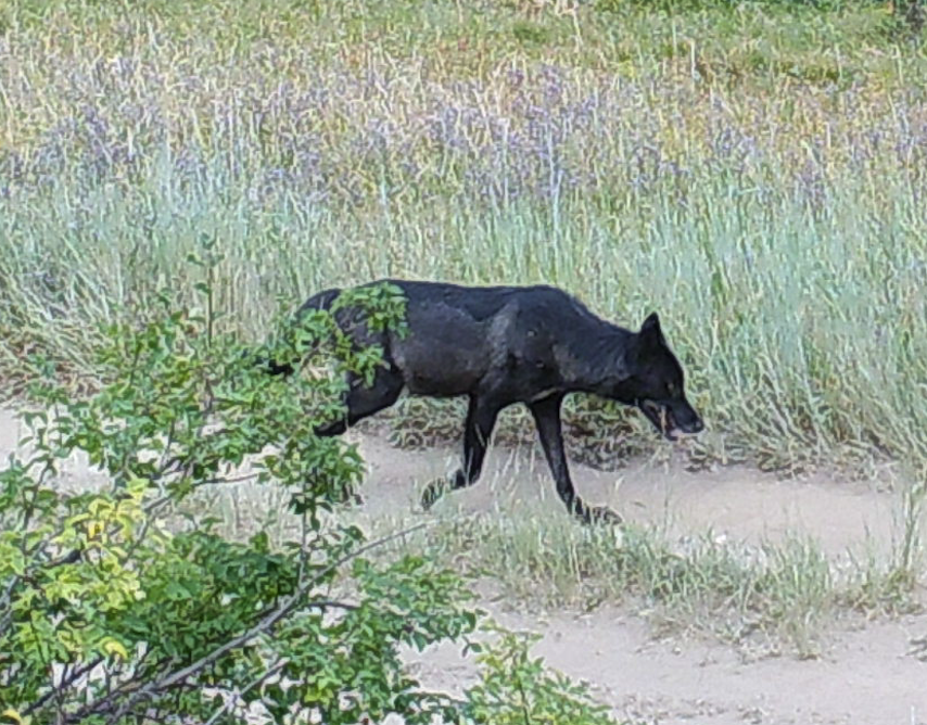 A picture of a black wolf walking on a dirt road in the Boise National Forest in Valley County, Idaho